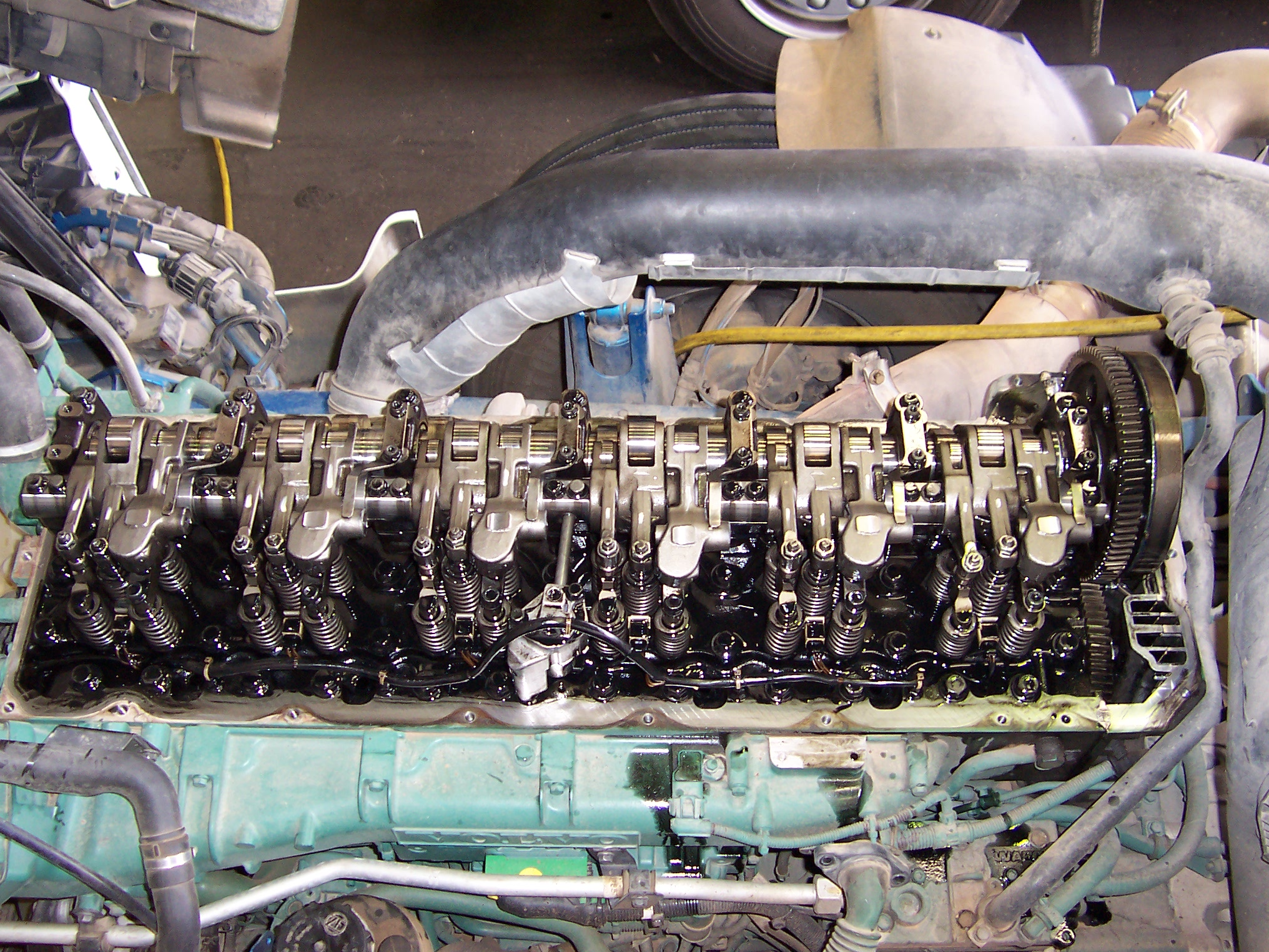 Volvo D13A diesel engine camshaft and valve train